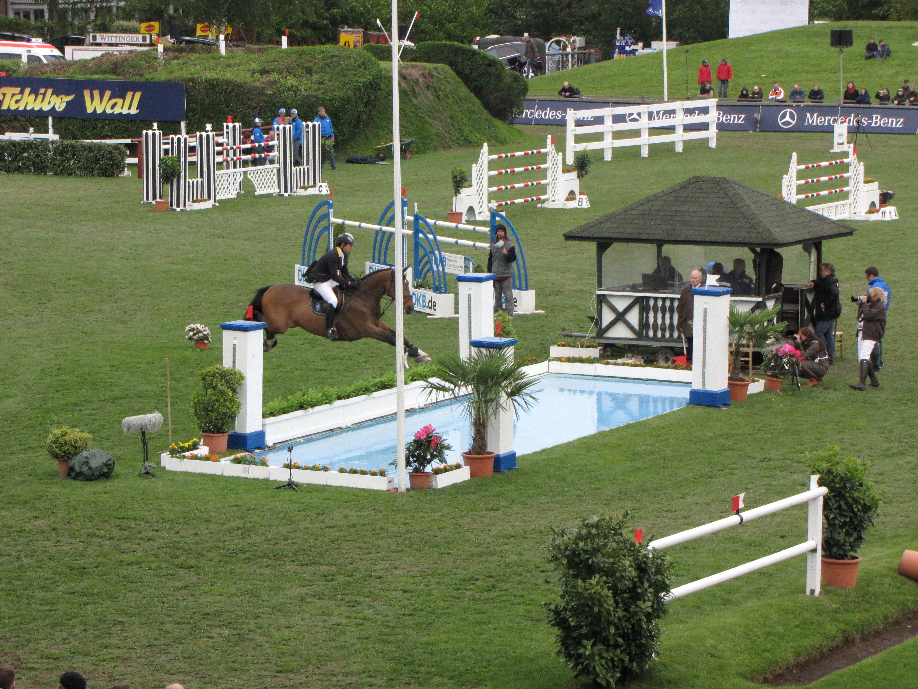 Kenneth Cheng, rider from Hong Kong, with Can Do. CSI 5*-Grand Prix (2010 Global Champions Tour of Germany) at the German show jumping and dressage derby, Hamburg.